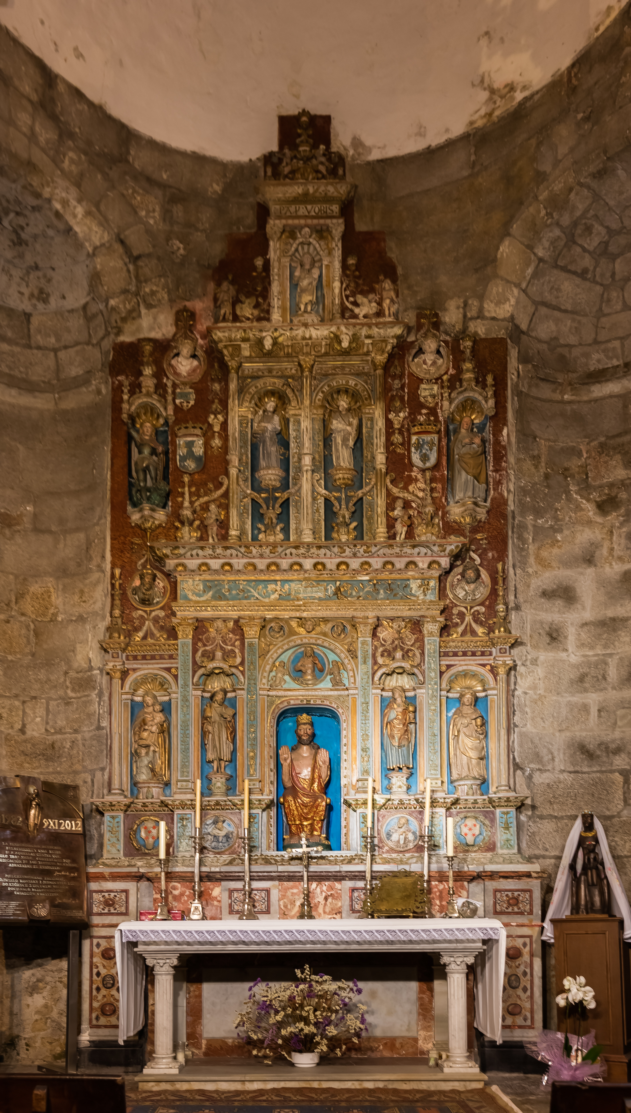 Cathedral, Santiago de Compostela, Spain